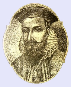 Portrait of Hernando de Lerma, founder of Salta